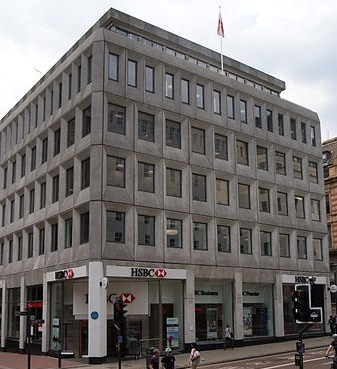 Cropped version of File:HSBC, Park Row, Leeds (4th July 2011) 001.JPG